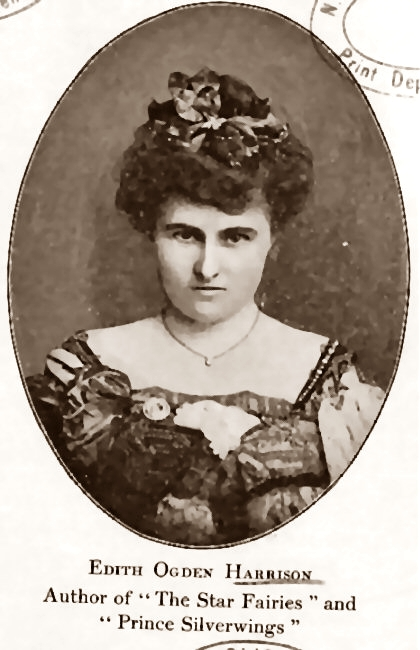 Writer Edith Ogden Harrison (1862-1955)